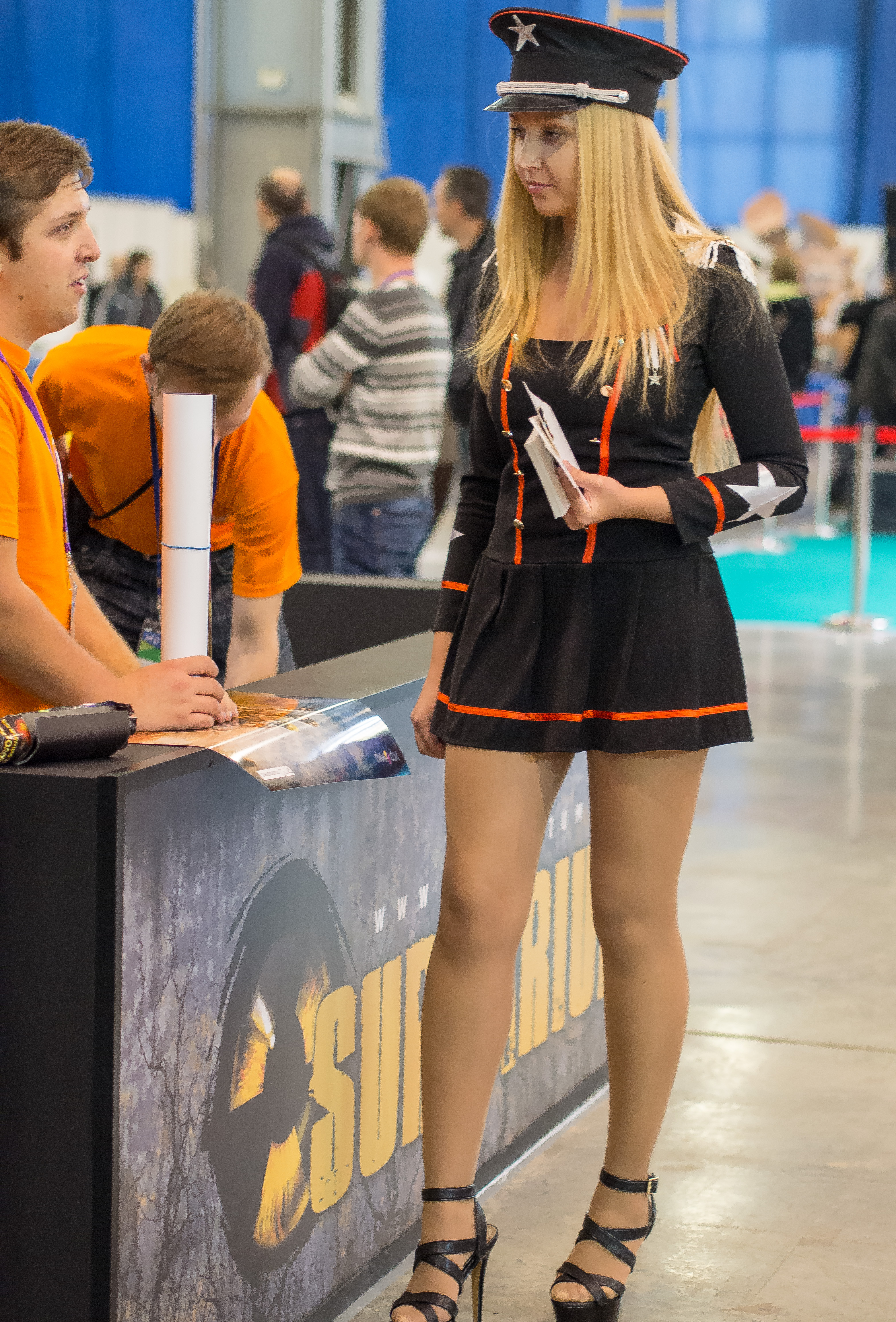 Russian gaming expo